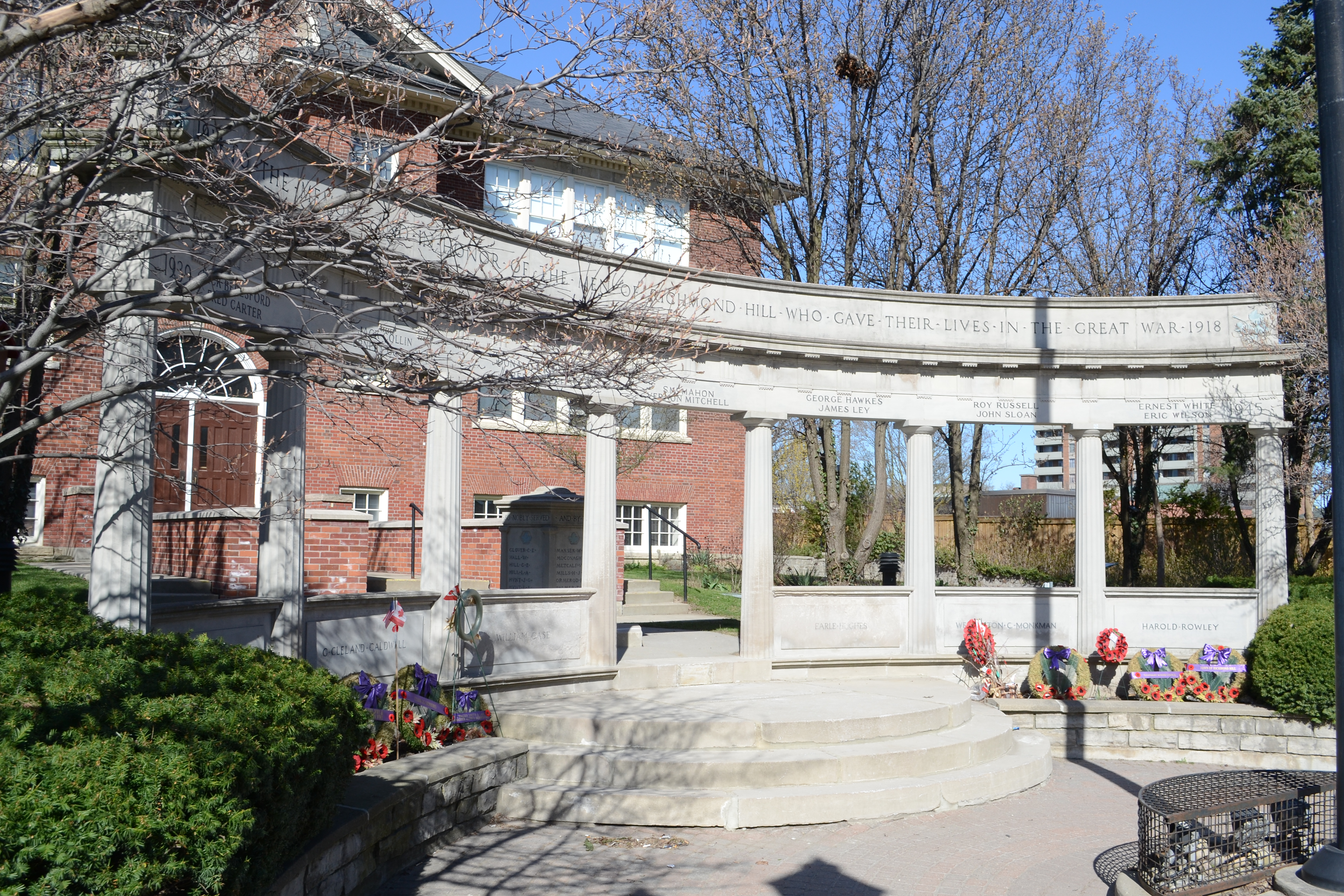 Richmond Hill Cenotaph - "1914. To the memory and in honour of the men of Richmond Hill who gave their lives in the Great War. 1918."